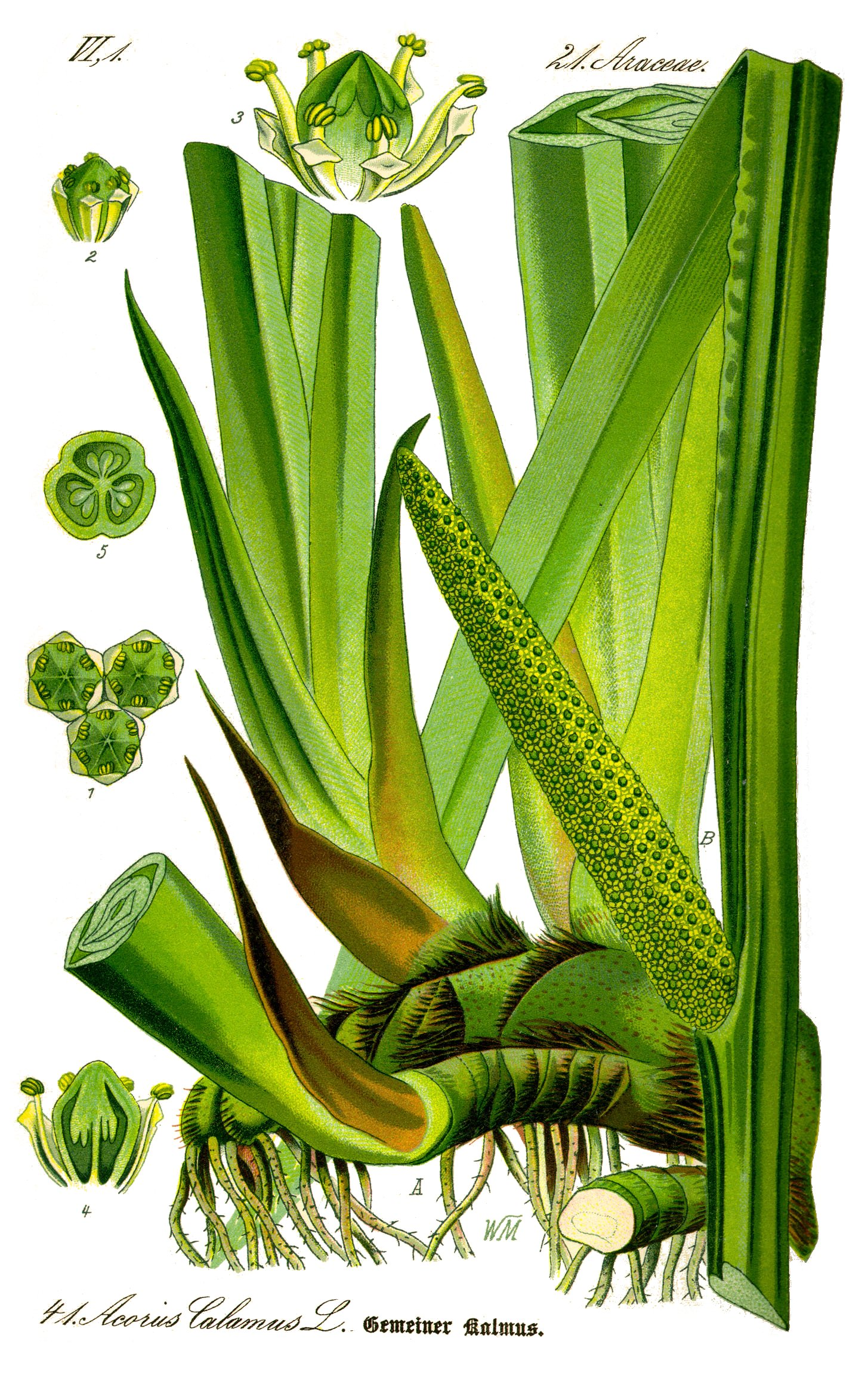 Clean version of Image:Illustration_Acorus_calamus0.jpg Name Acorus calamus Family Acoraceae